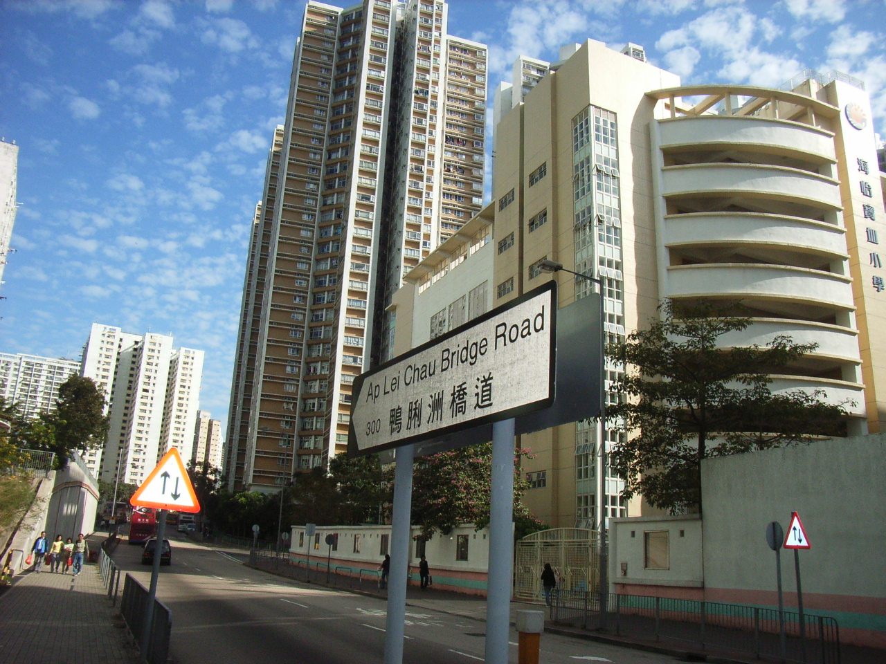 Ap Lei Chau Bridge Road, Hong Kong Photographer:User:Apade1872